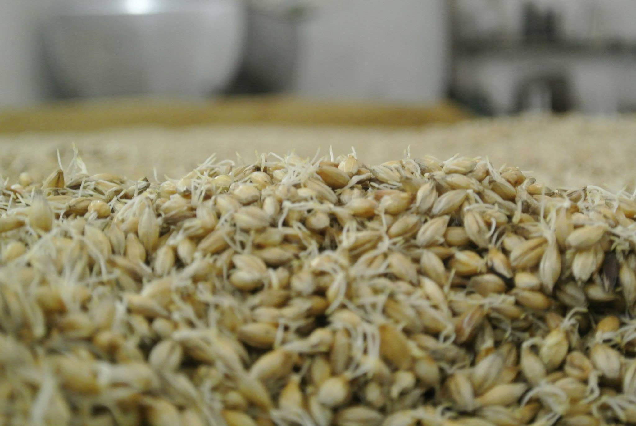 Green malt - after germination of the barley grains. The malt culms are clearly visible